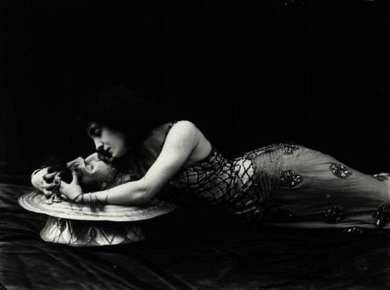 Mario Nunes Vais (1856-1932), "Lyda Borelli posing as Oscar Wilde's Salomè".